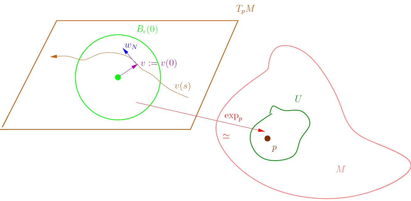 Scheme of the application chosen is the proof of the Gauss Lemma